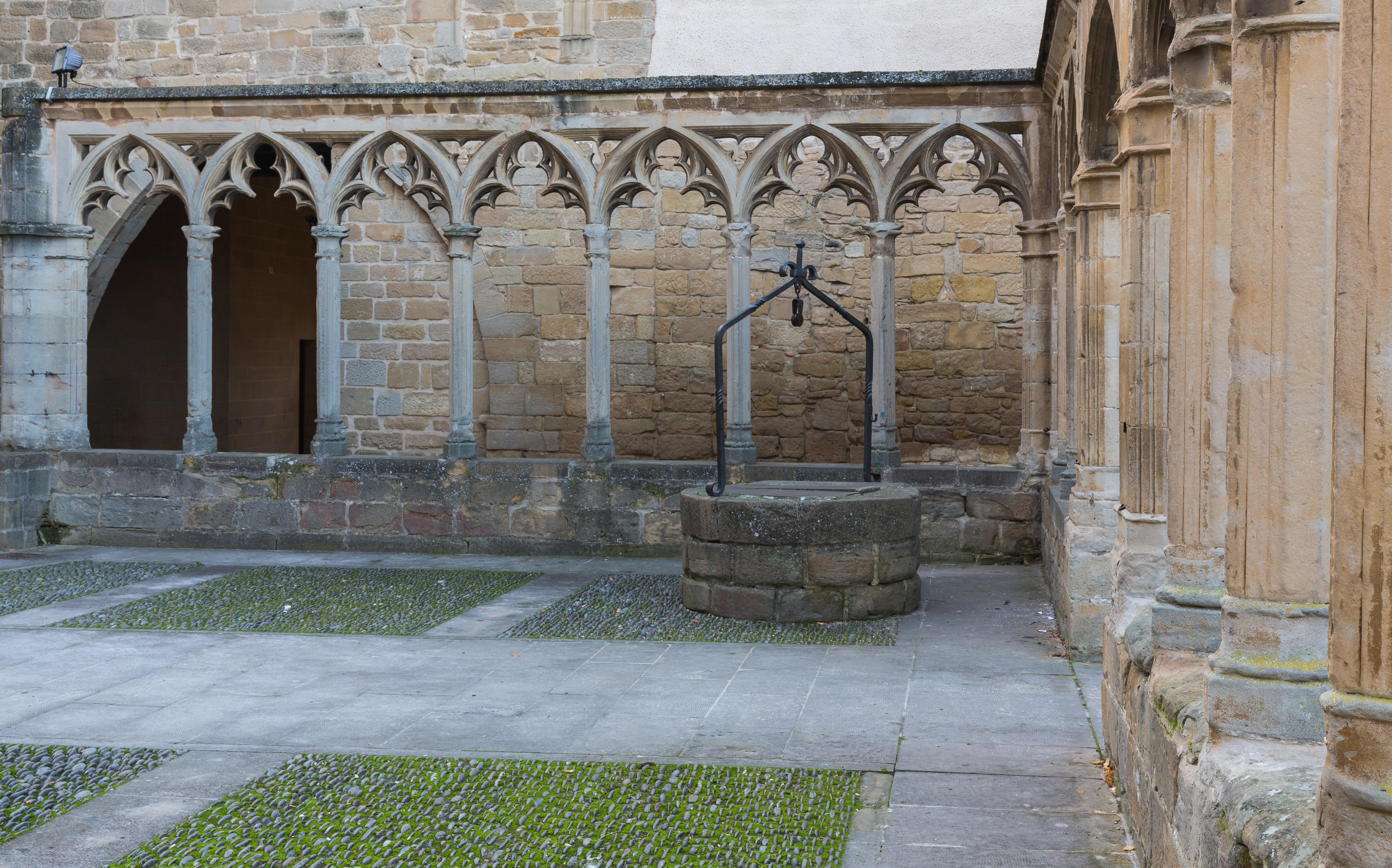 Church of Santa María la Real, Olite, Navarre, Spain